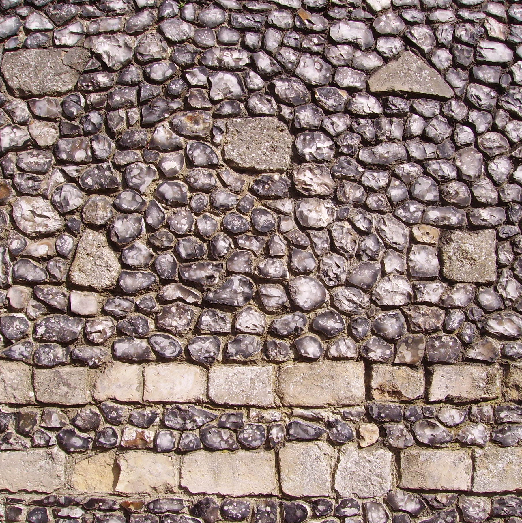 wall in Canterbury; United Kingdogm